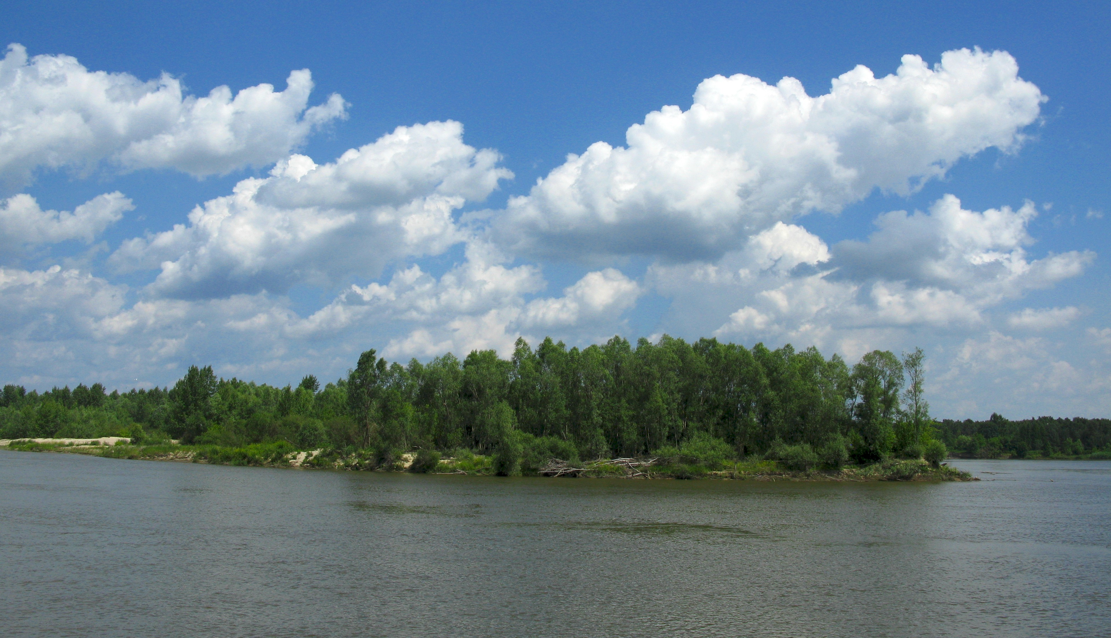 Kępa (river island) on Vistula near Magnuszew